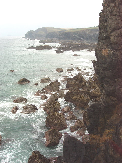 Roundhole Point, Trevone Bay. View North-east from the point, to Gunver Head.